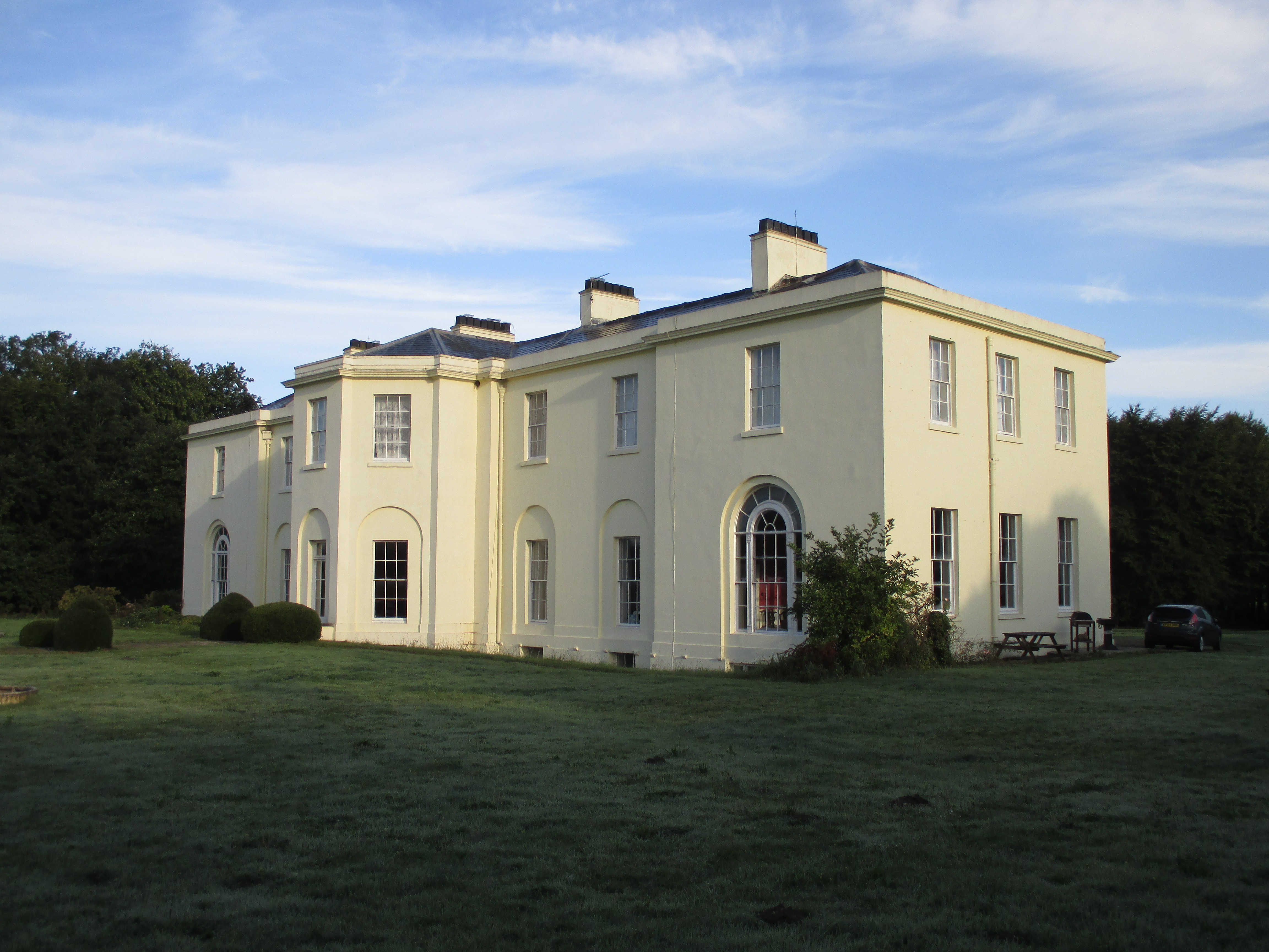 The back of Clermont Hall, near Little Cressingham, Norfolk, seen from the south-east.